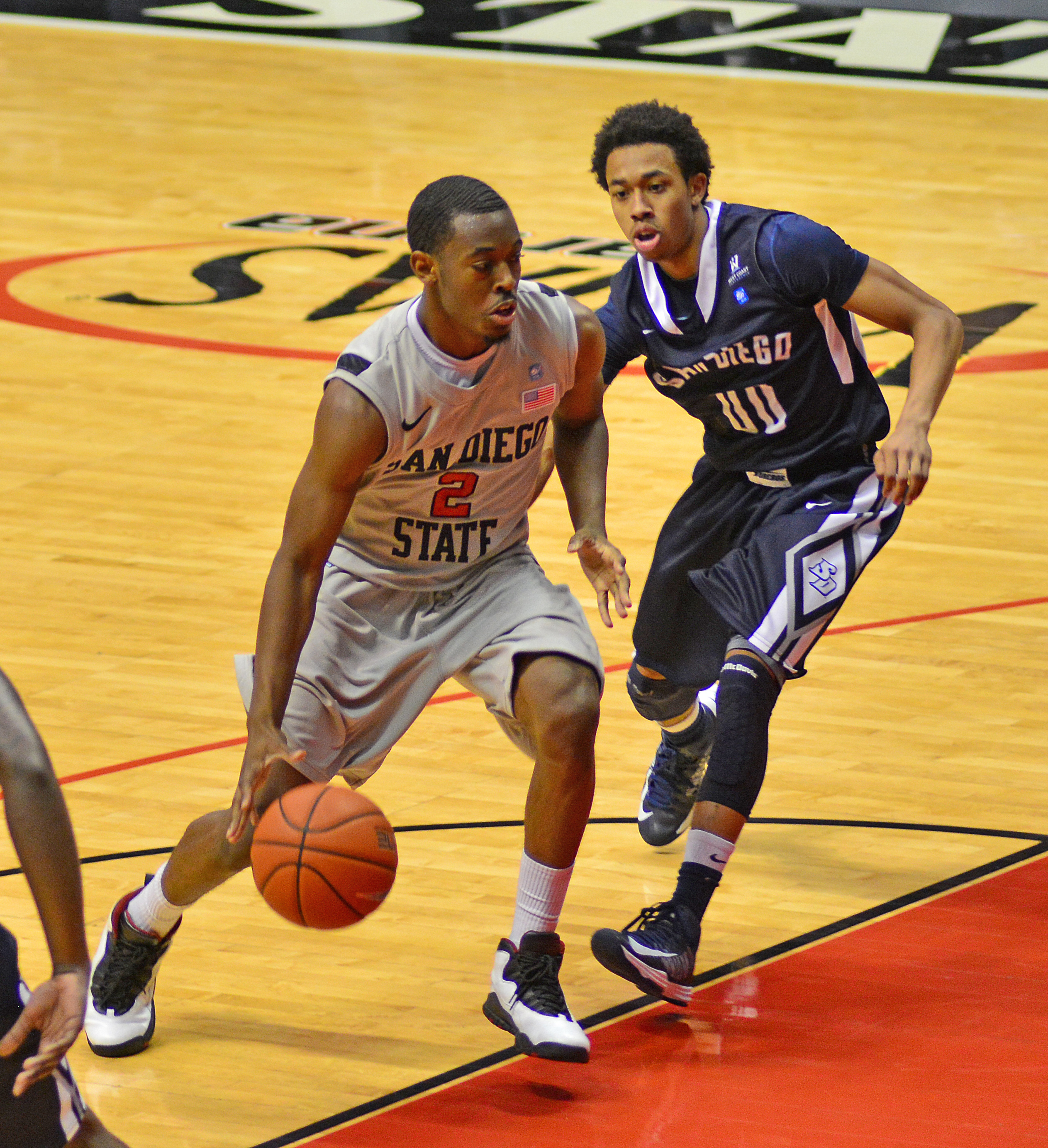 Xavier Thames San Diego State Aztecs on Dec. 15, 2012 in Viejas Arena vs USD Toreros